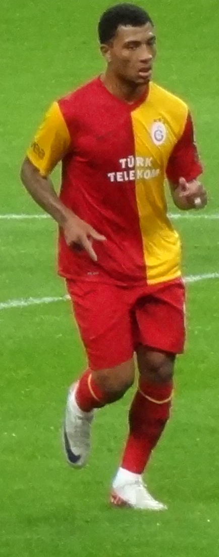 colin kazım!